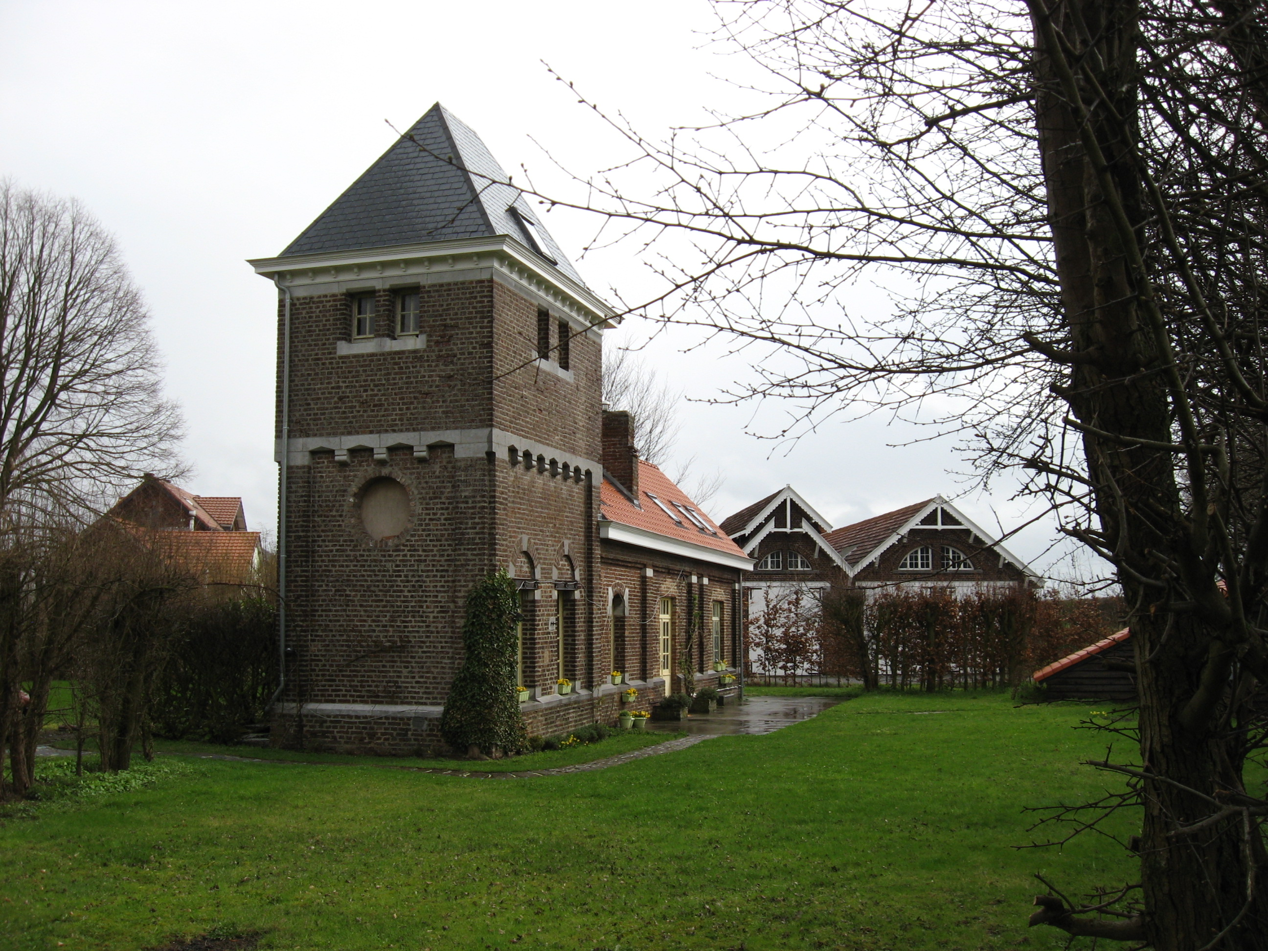 Vicinal depot at Envoz